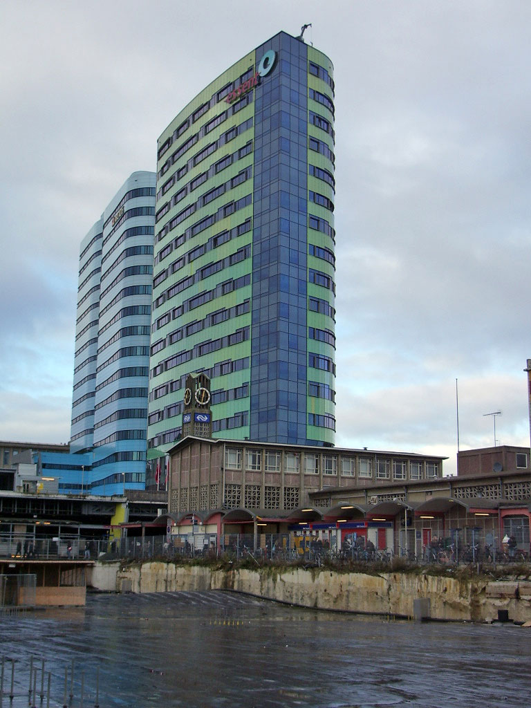 Arnhem railway station